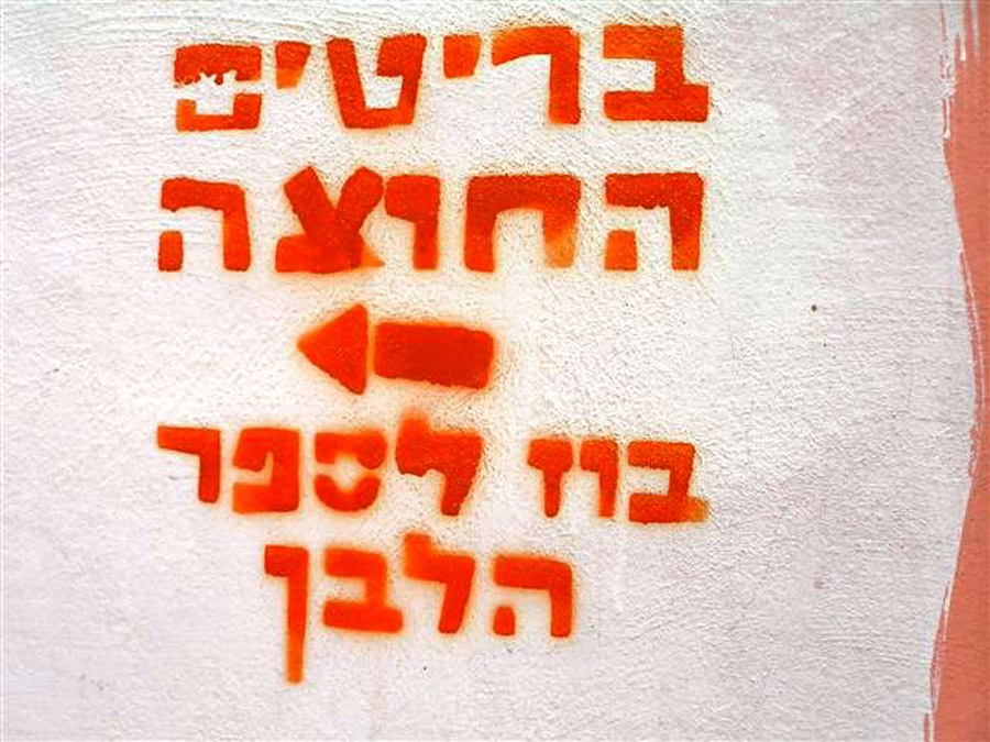 "British - Out!" retro grafitti in Jerusalem